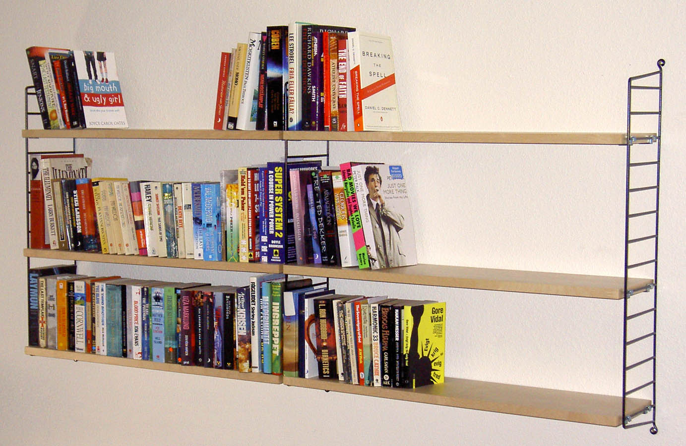 Bookshelf "String". It was designed in 1949 and became a bestseller in the mid-50s. Now back in production.